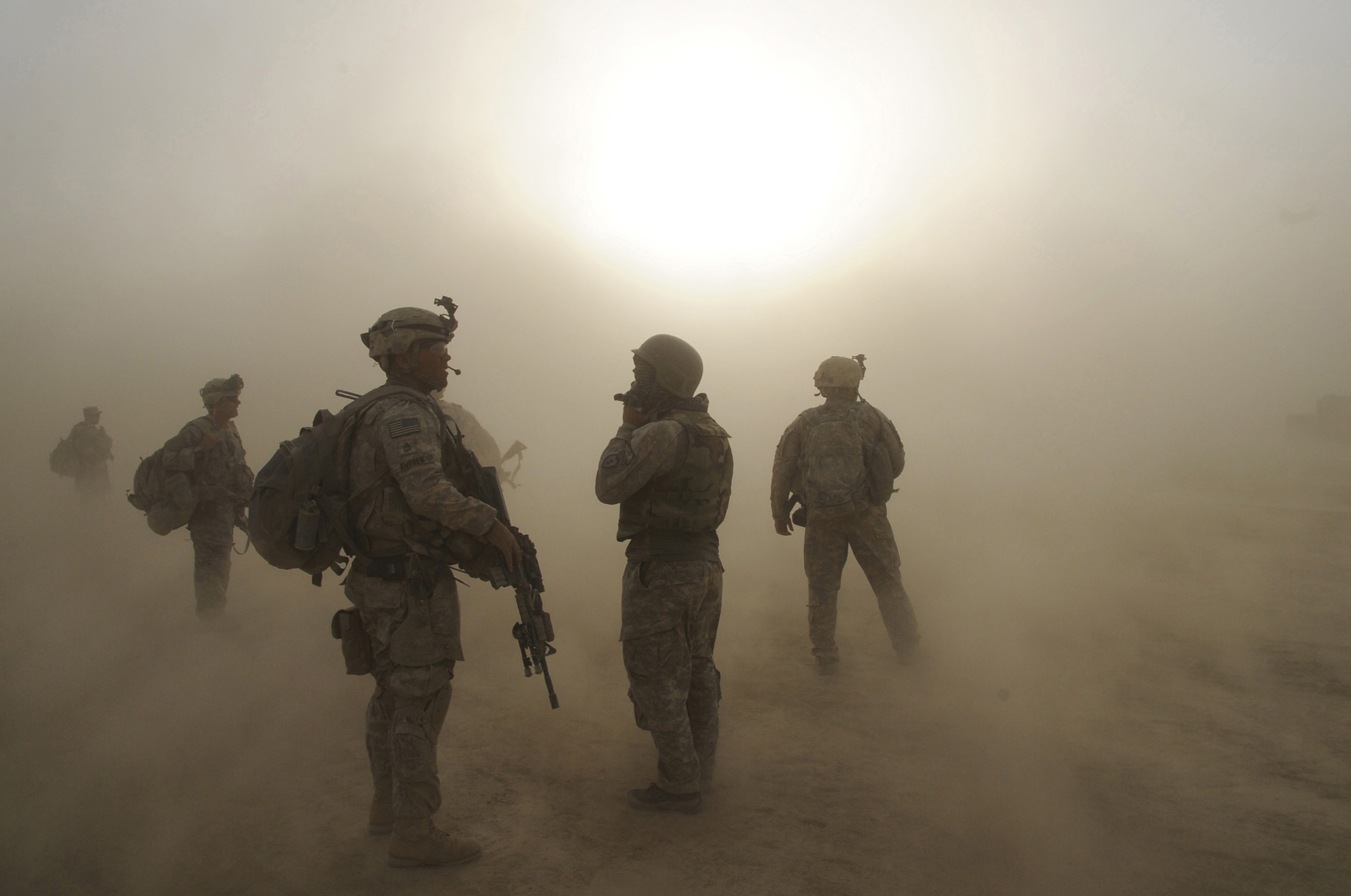 Sgt. 1st Class Lance Amsden, platoon sergeant for the 1st Platoon, Company C, 1st Battalion, 501st Infantry Regiment, 4th Brigade Combat Team (Airborne), 25th Infantry Division, watches as CH-47 Chinook helicopters circle above during a dust storm at Forward Operating Base Kushamond, Dila district, Afghanistan, July 17, during preparation for an air assault mission. See more at